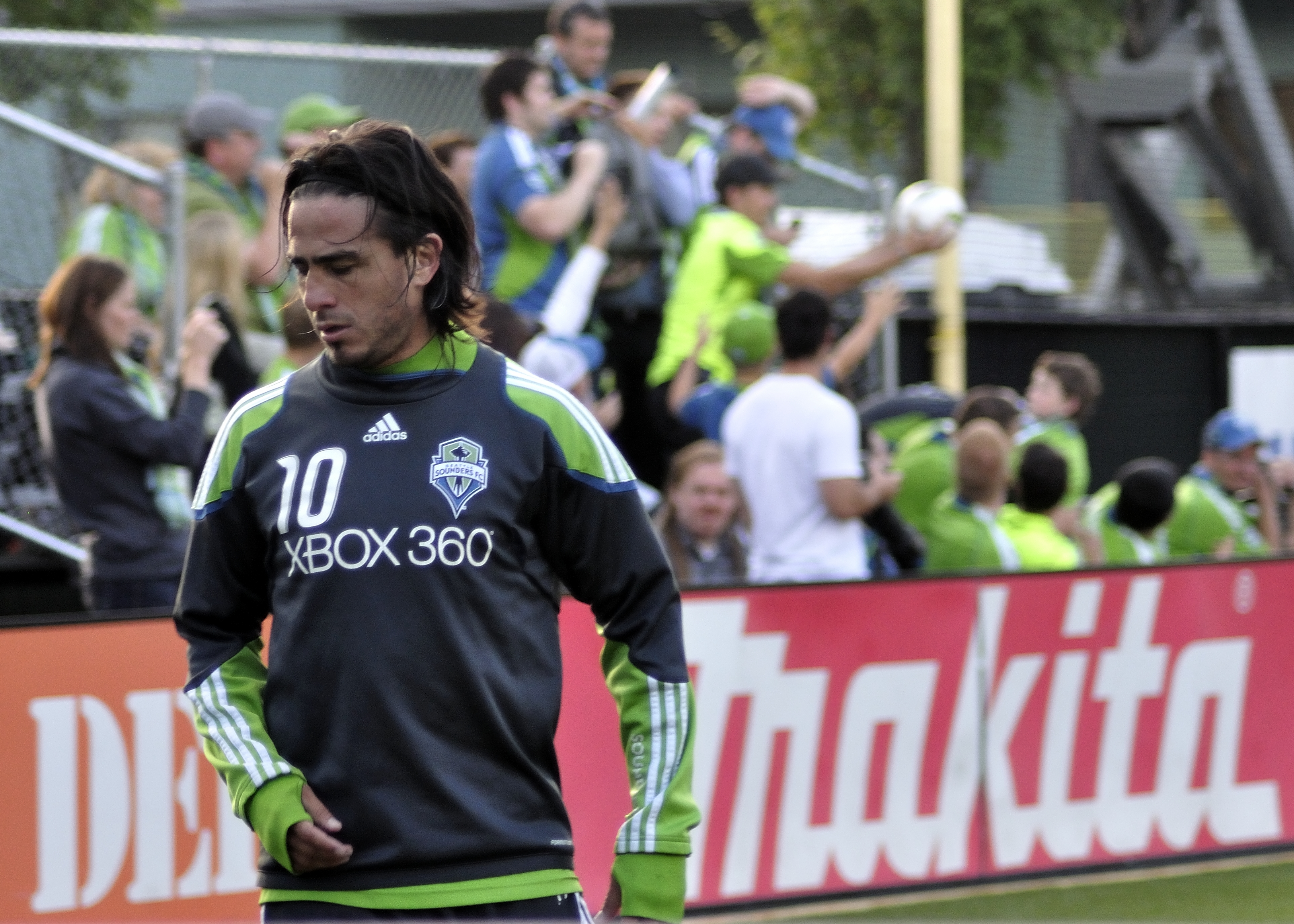 Mauro Rosales warming up for a US Open Cup match against FC Dallas.